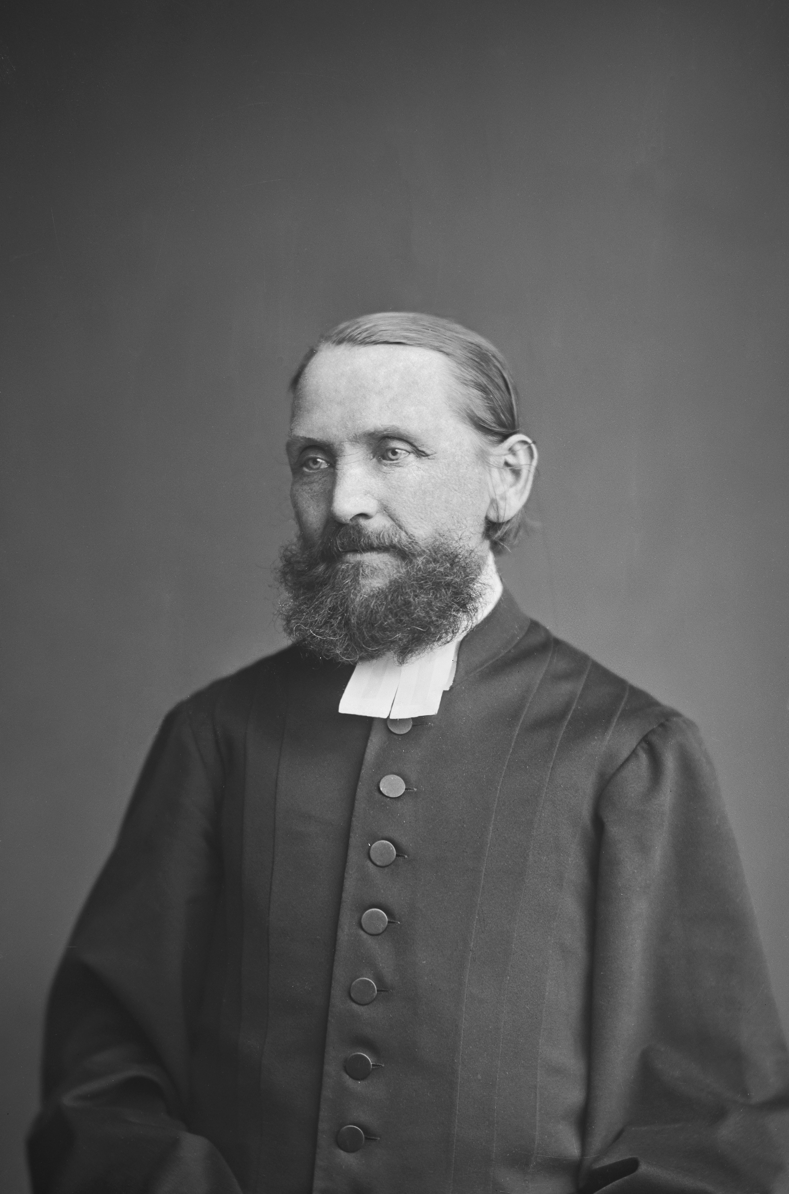 Photograph of the Finnish theologian and writer Antero Warelius (1821–1904).